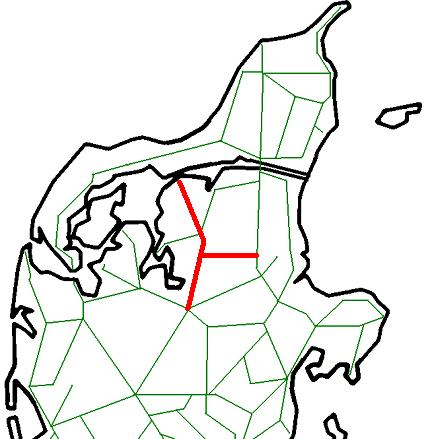 Map of railways in Northen Jutland in Denmark in 1932 with the now closed state railway Himmerlandsbanen from Hobro-Aalestrup-Løgstør and Viborg-Aalestrup in red.